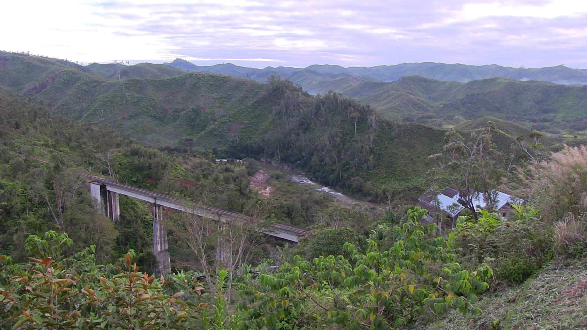 This is an image with the theme "Africa on the Move or Transport" from: Madagascar